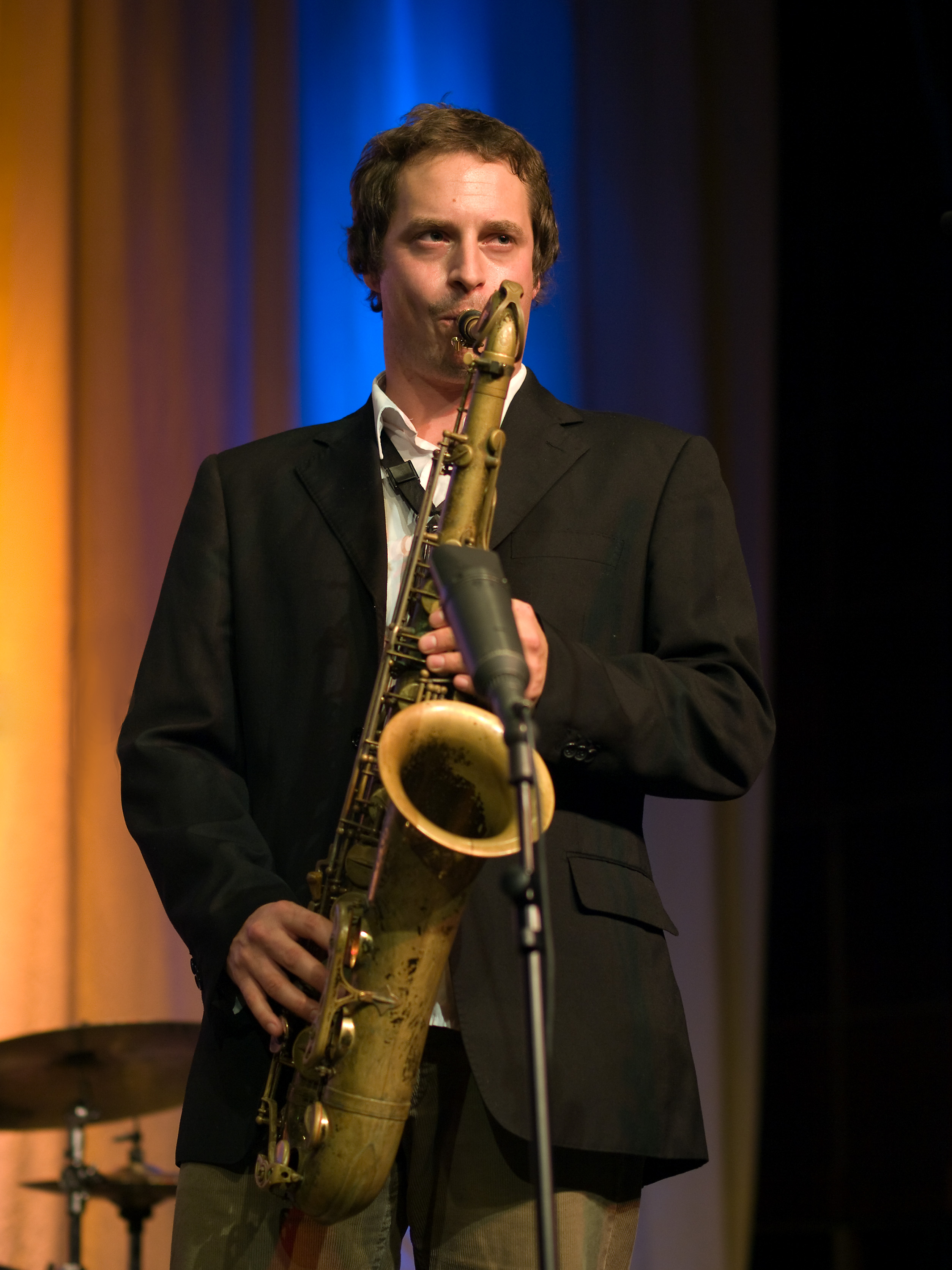 Alex Hendriksen, jazz saxophonist; Picture taken in Studio 2, Bayerischer Rundfunk, Munich/Bavaria